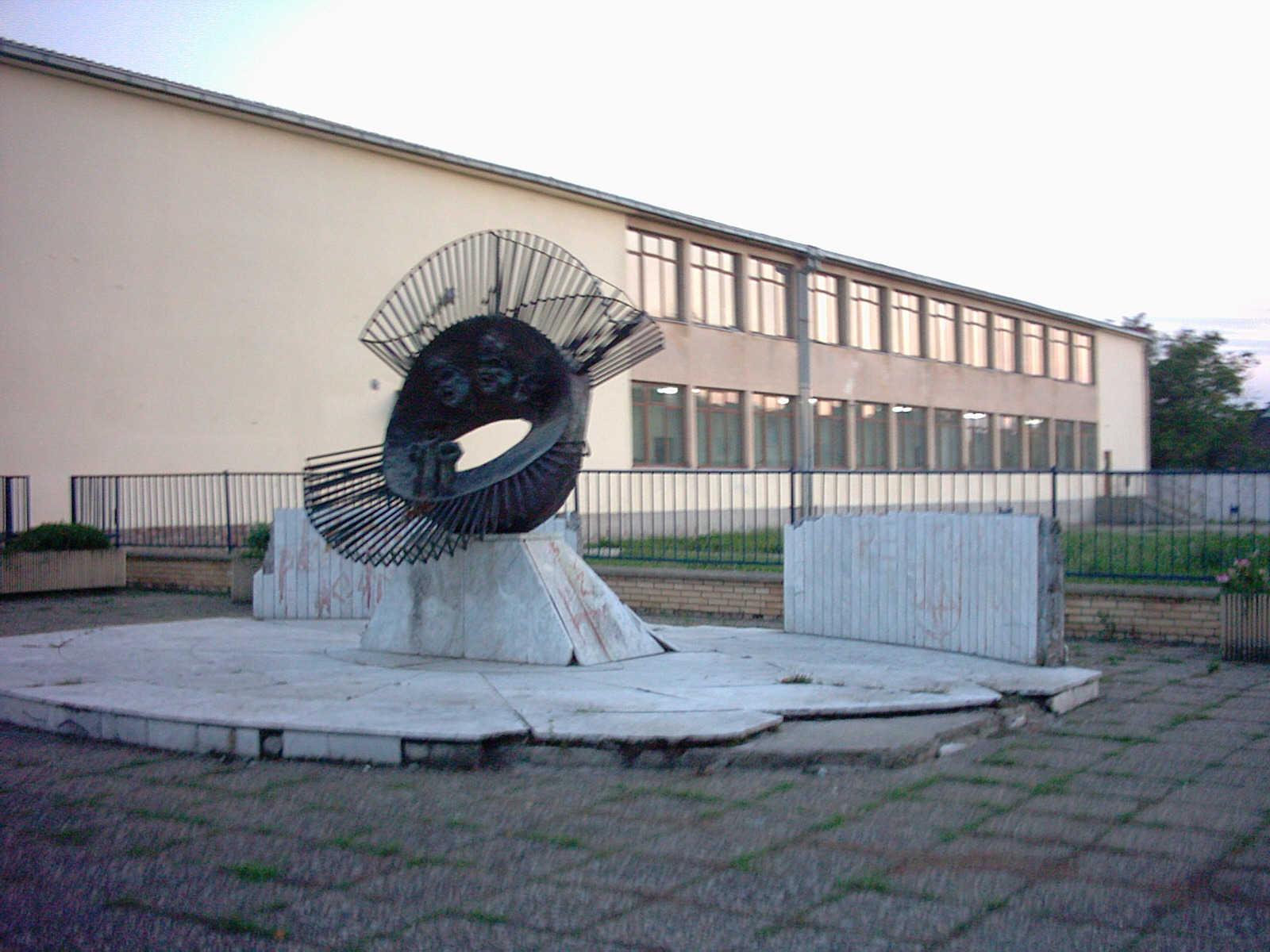 Osnovna škola u Kucuri